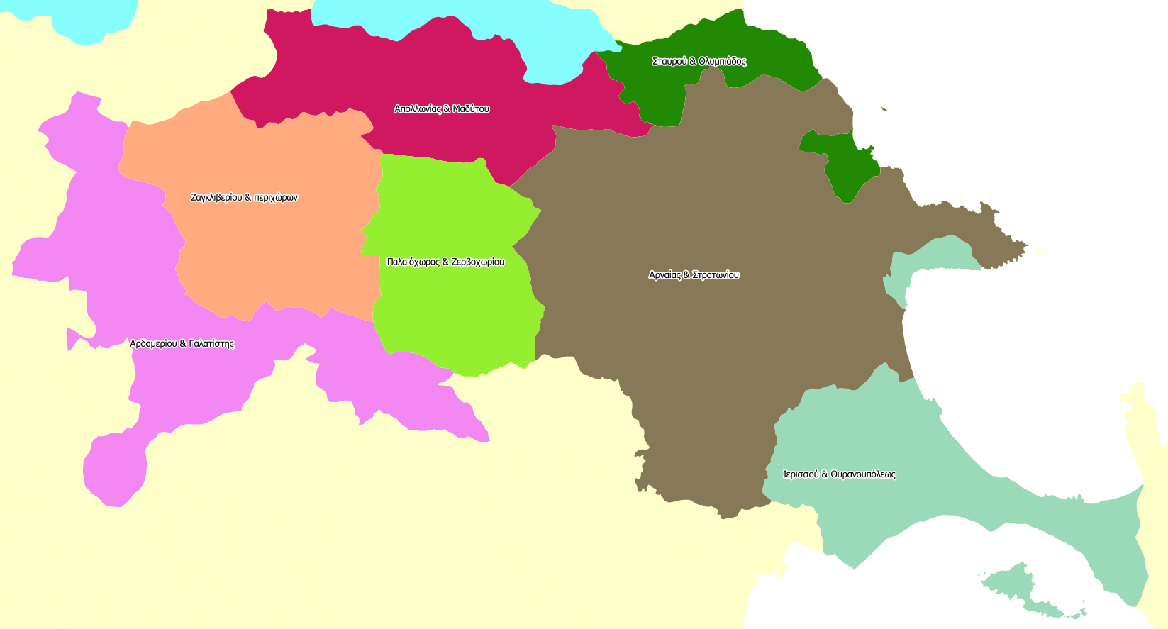 Metropolitan regions of the Holy Metropolis of Hierissos, Hagion Oros and Ardamerion of the Ecumenical Patriarchate of Constantinople of the Eastern Orthodox Church